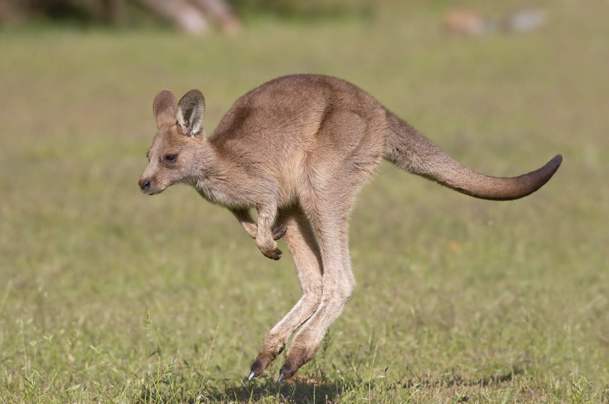 Eastern Grey Kangaro (Macropus giganteus) Juvenile, Maria Island, Tasmania, Australia